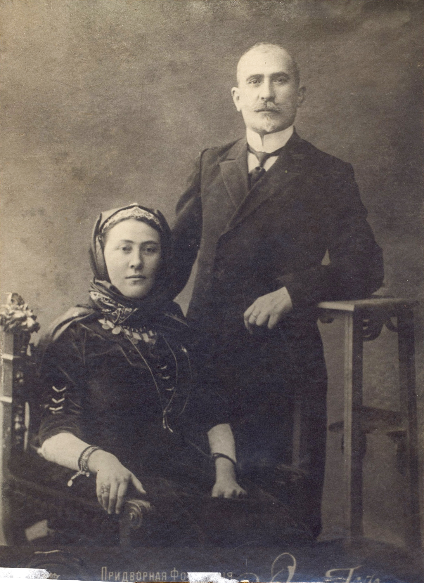 Köçərli Firidun b., Badisəba x. Bakı, 1920 Watermark from image: Fotobank